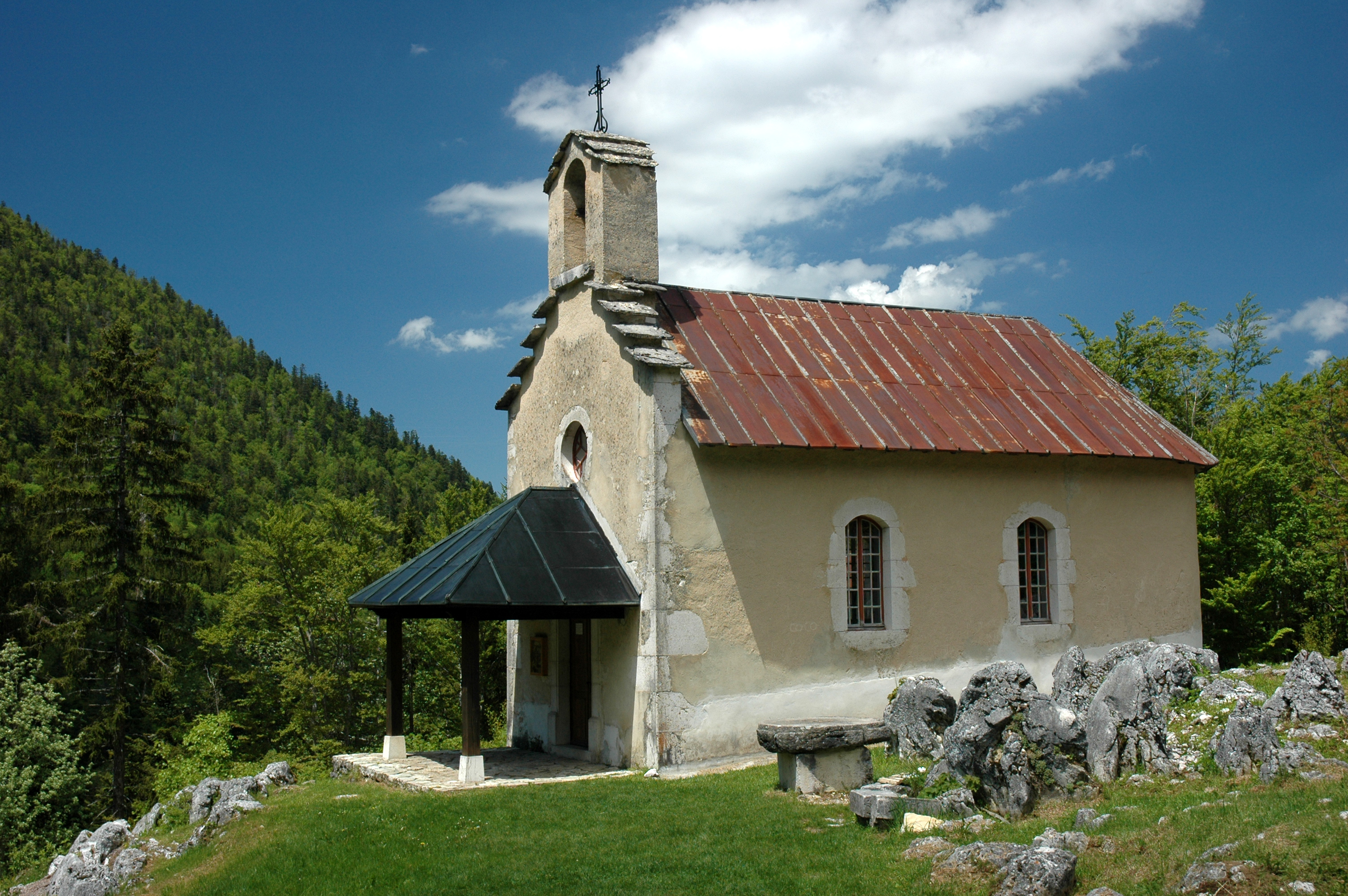 The chapel at Valchevrière, the only building in the hamlet that was not razed by the nazis